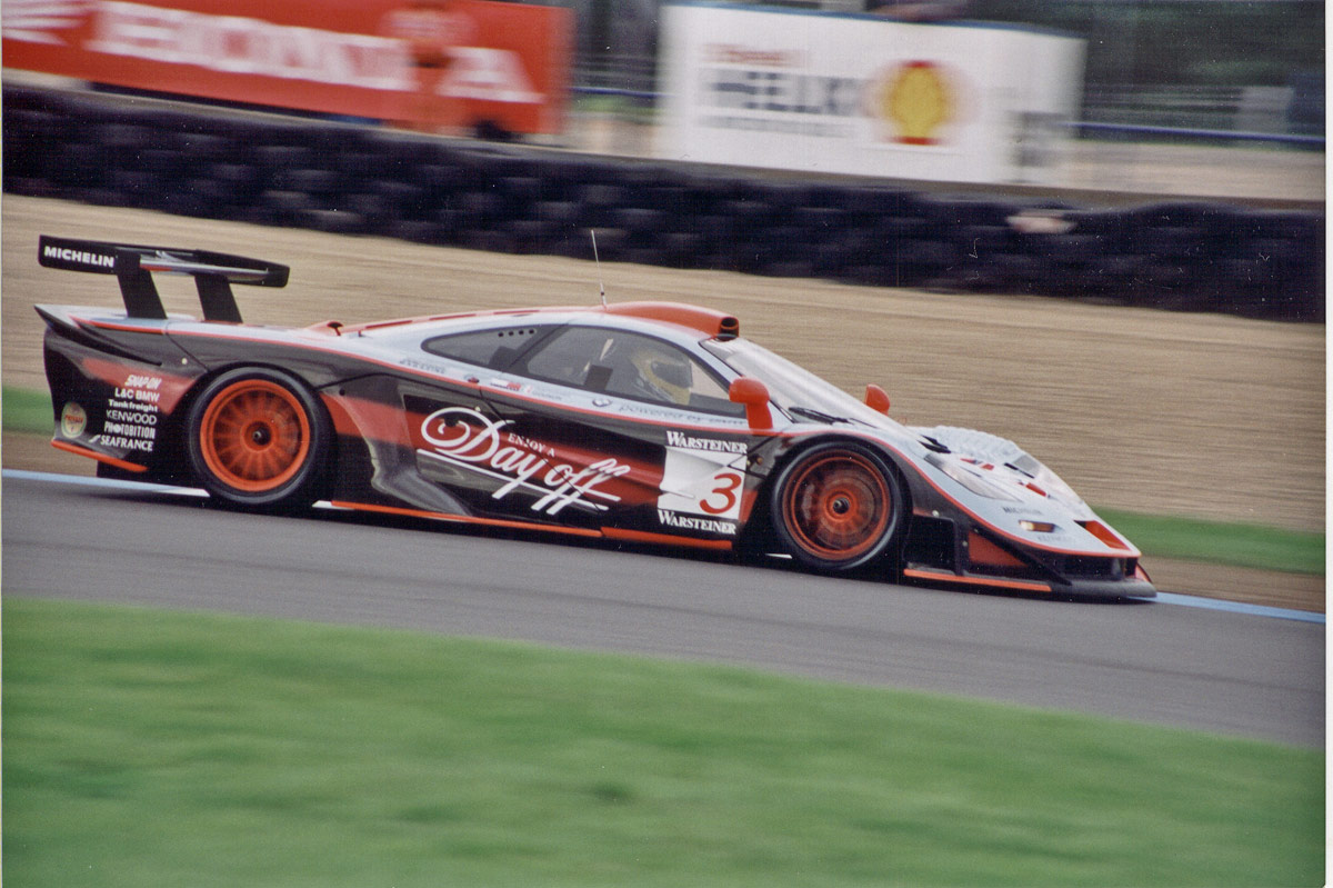 Gulf Team Davidoff Mclaren F1 Donnington 1997